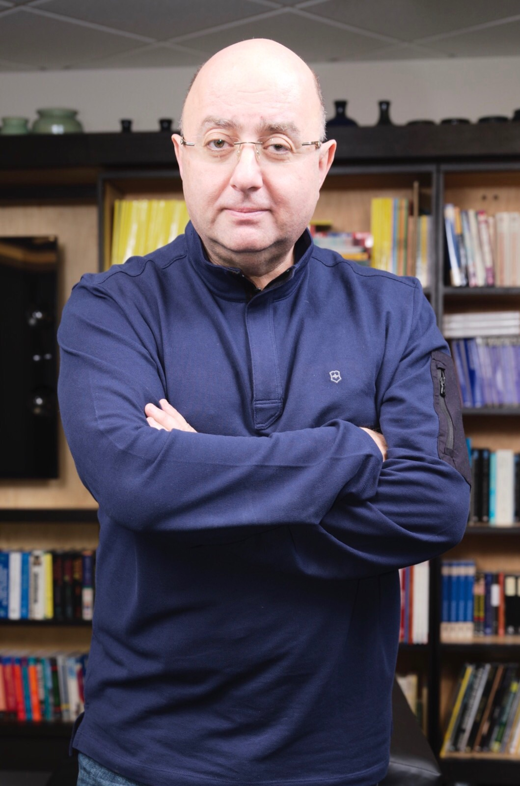 Claude Comair, February 2017